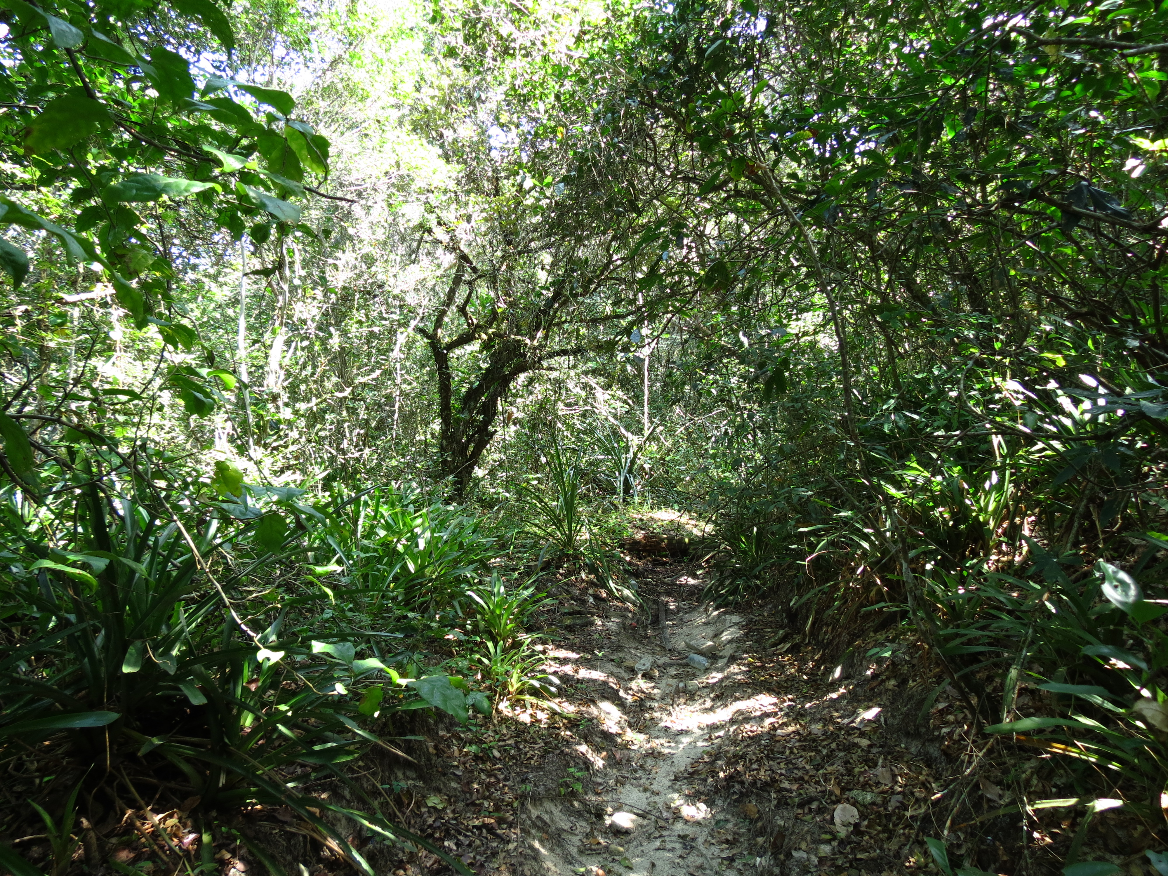 Interior of a "restinga forest", in Bertioga.